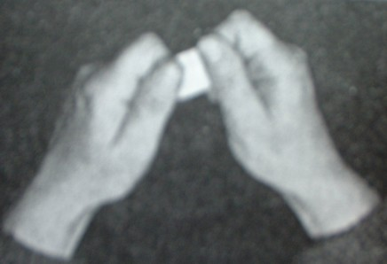 Pulling a cotton staple